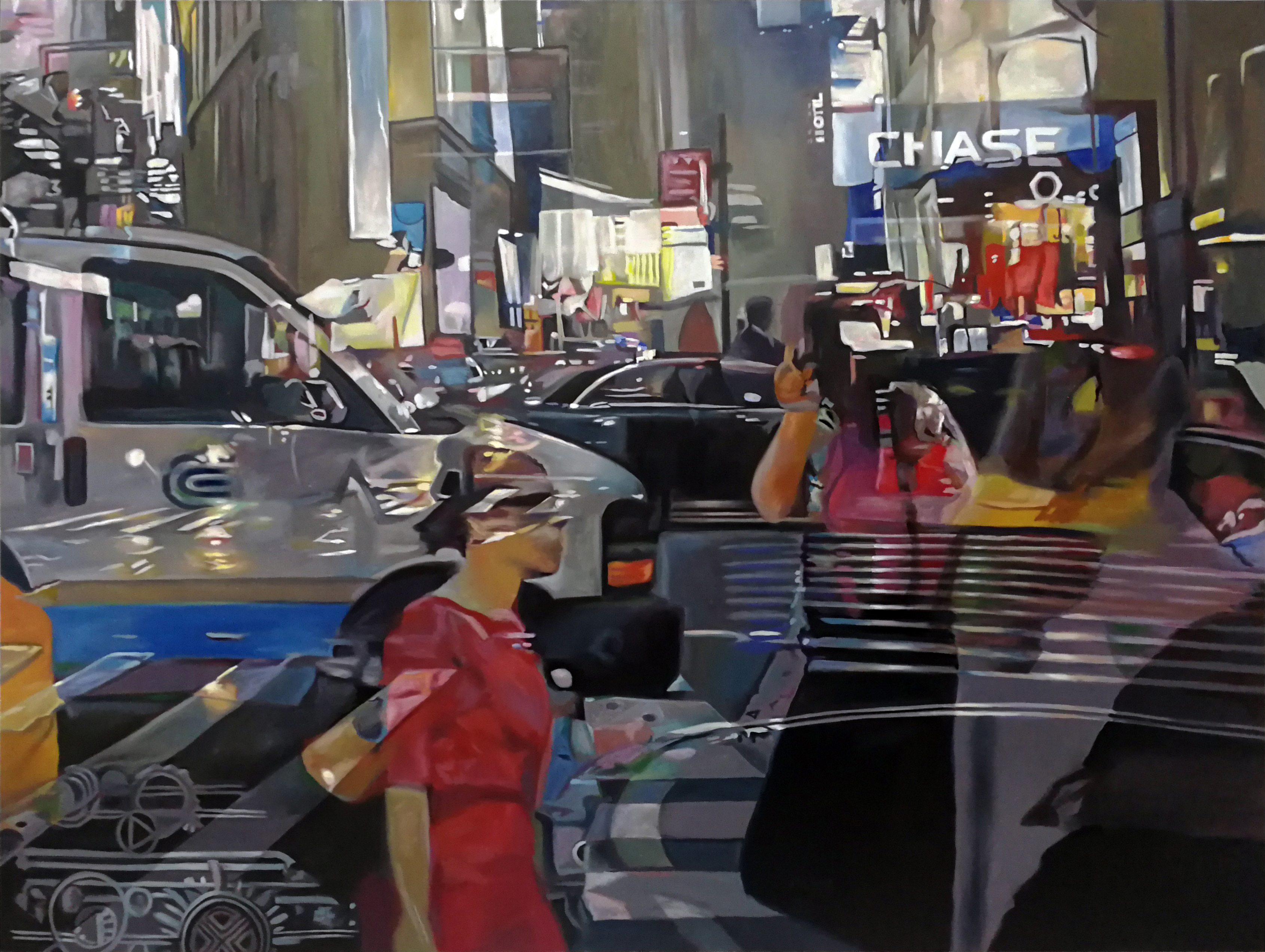 Werner Fohrer Streetlife ( Where The Streets Have No Name) 2018 140x190 cm